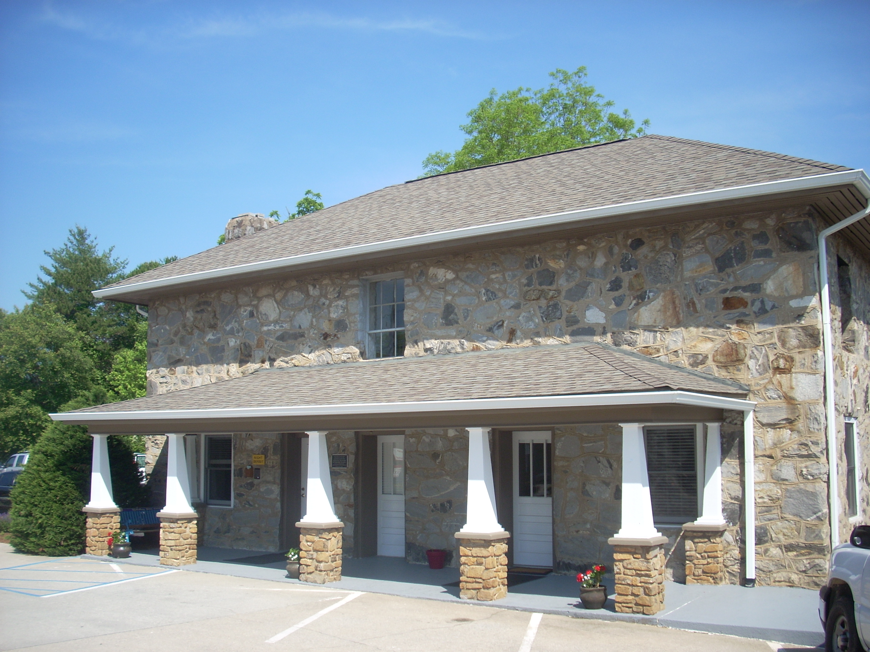 Old Union County Jail, Blairsville (Union County, Georgia) Currently used as Blairsville City Hall This work has been released into the public domain by its author, KudzuVine. This applies worldwide. In some countries this may not be legally possible; if so: KudzuVine grants anyone the right to use this work for any purpose, without any conditions, unless such conditions are required by law. Object location34° 52′ 33″ N, 83° 57′ 36″ W